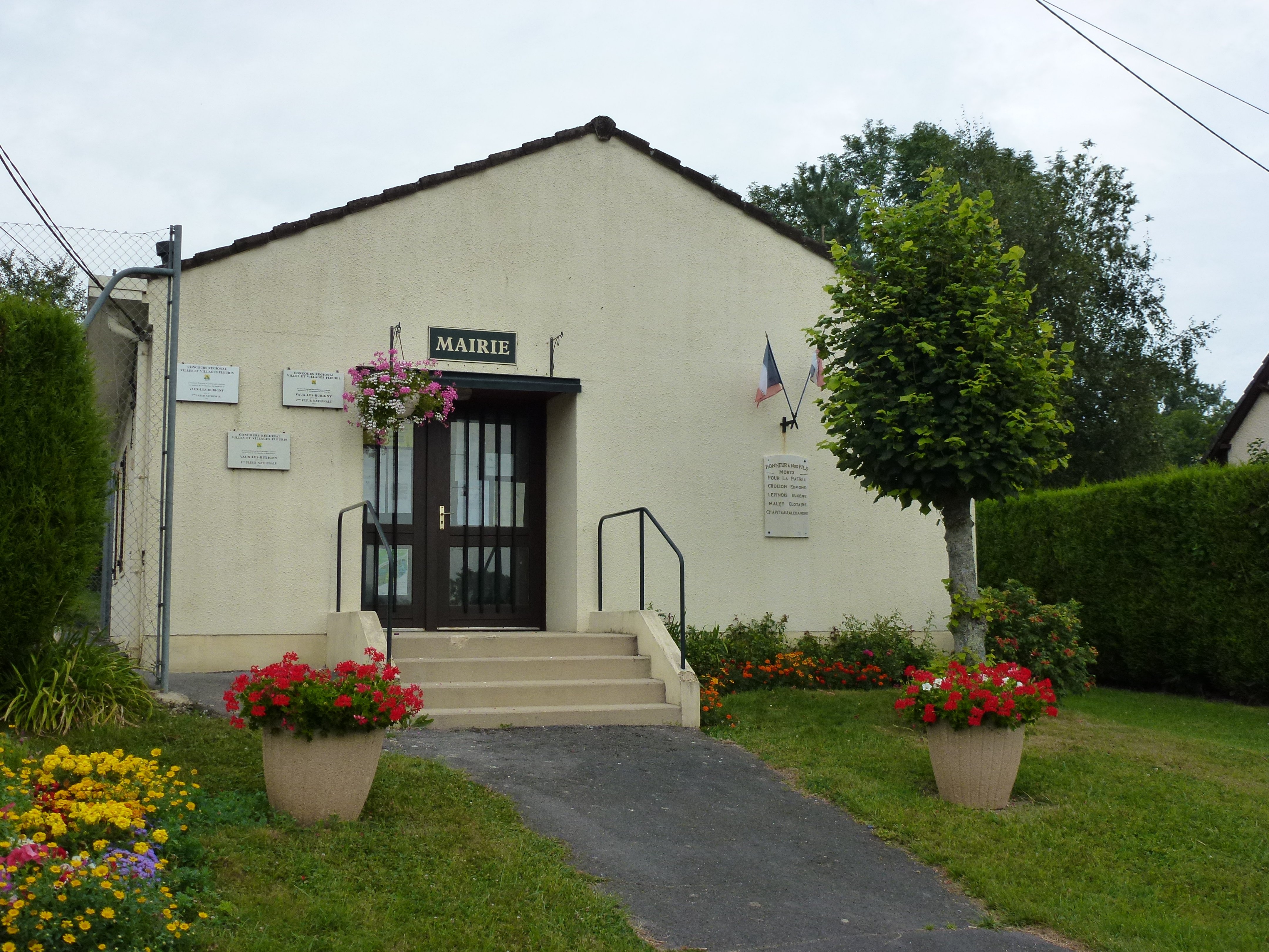 Vaux-lès-Rubigny (Ardennes) mairie